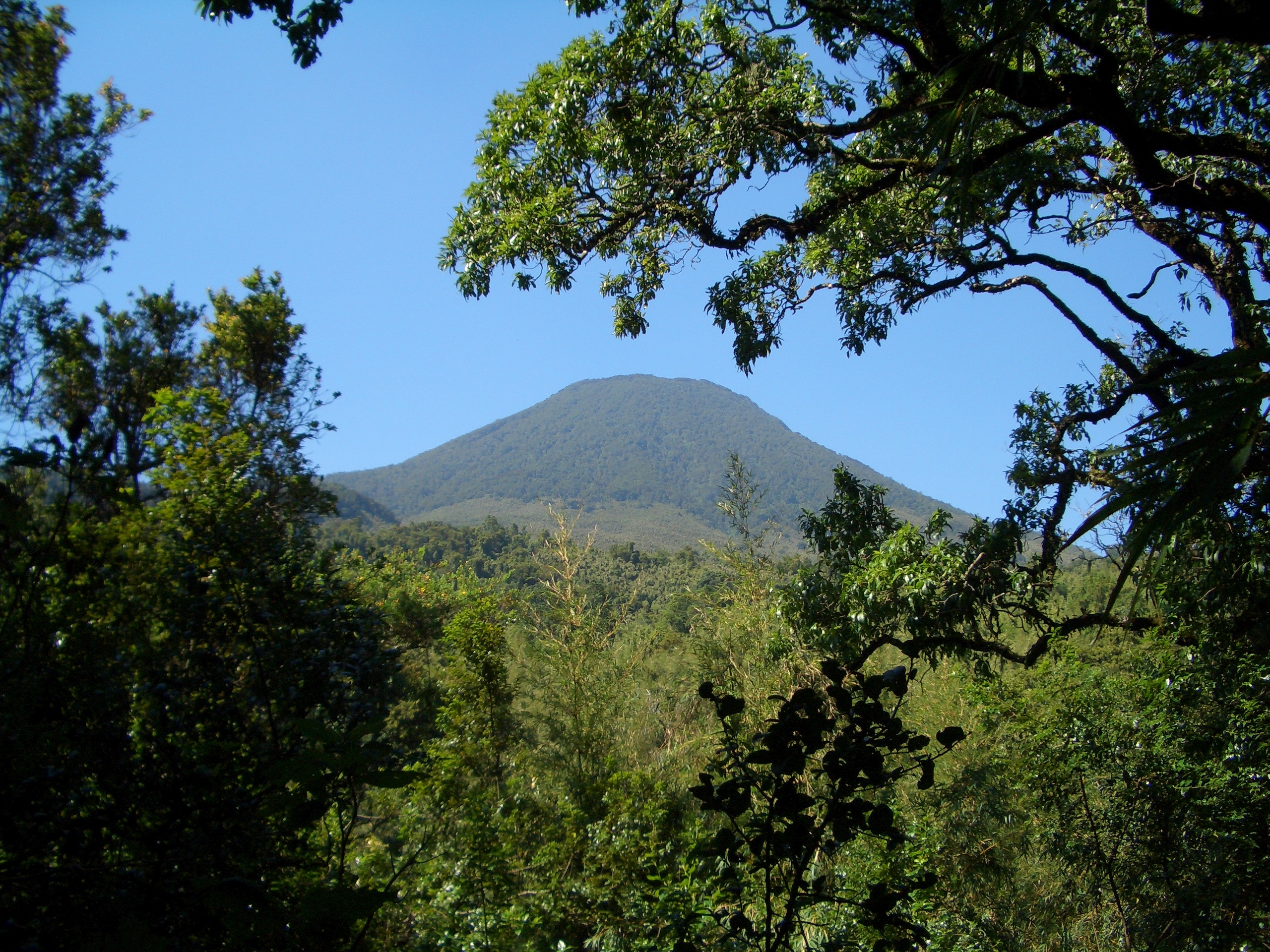 Bwindi Impenetrable National Park (Uganda)